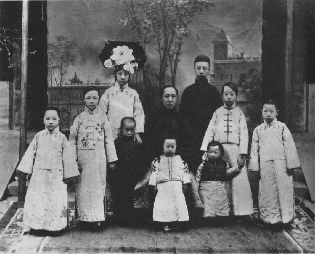 2nd Prince Chun's family